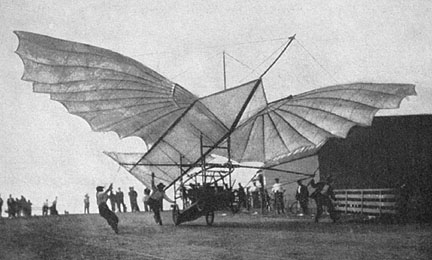 Aviation pioneer Gustave Whitehead built and tested this Albatross-type glider.